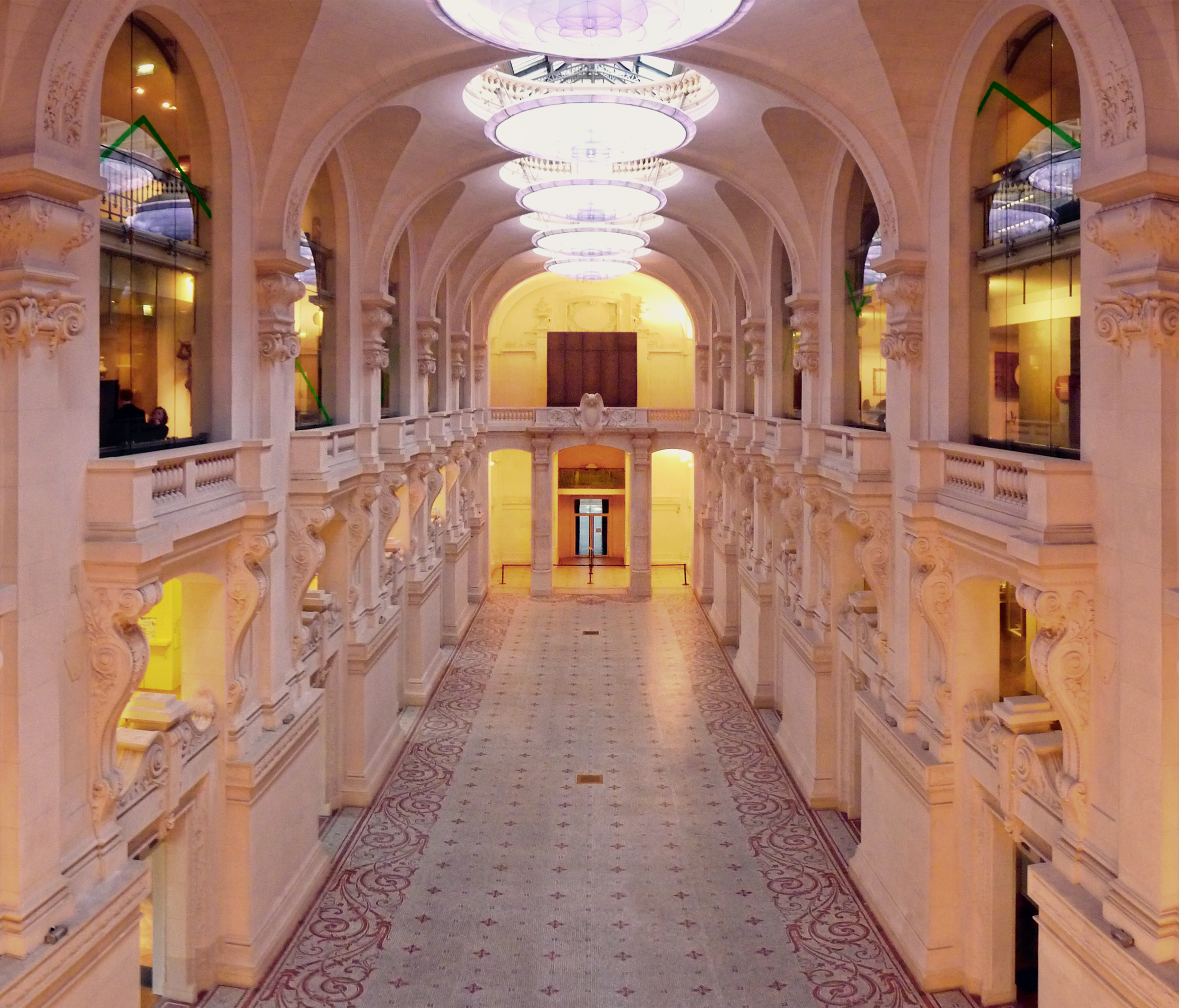 The interior Hall of Art et Decoration Museum in Paris, France